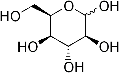 chemical structure of D-idose in its pyranose form